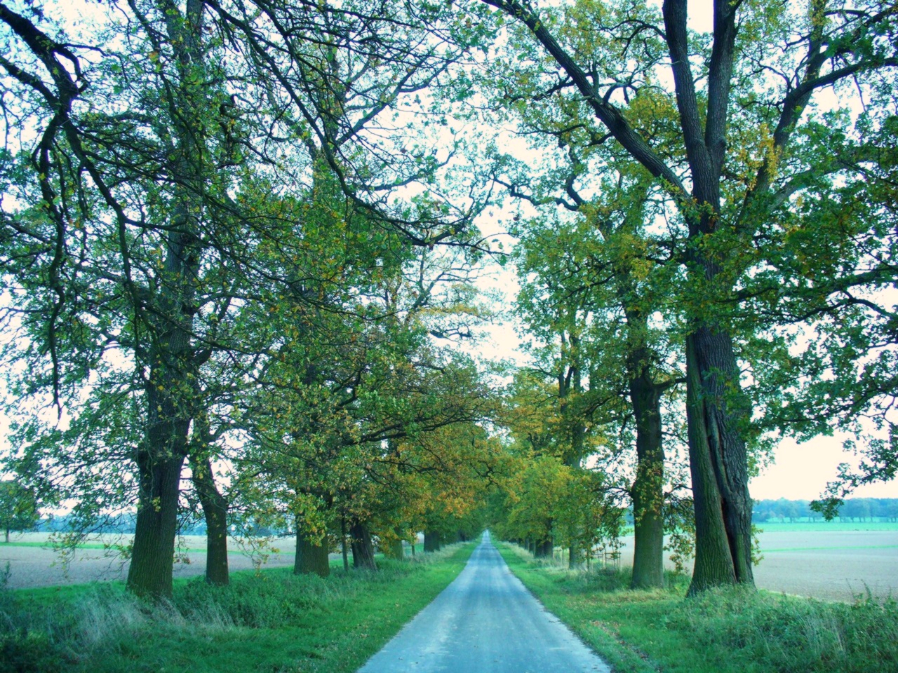 Oak tree-alley at Beberbeck, called "Huteallee" (forest meadow-alley) south of the nature reserve "Urwald Sababurg", Reinhardswald north of Kassel, Hessen, Germany